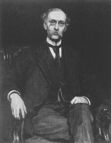 Portrait of Robert Treat Paine